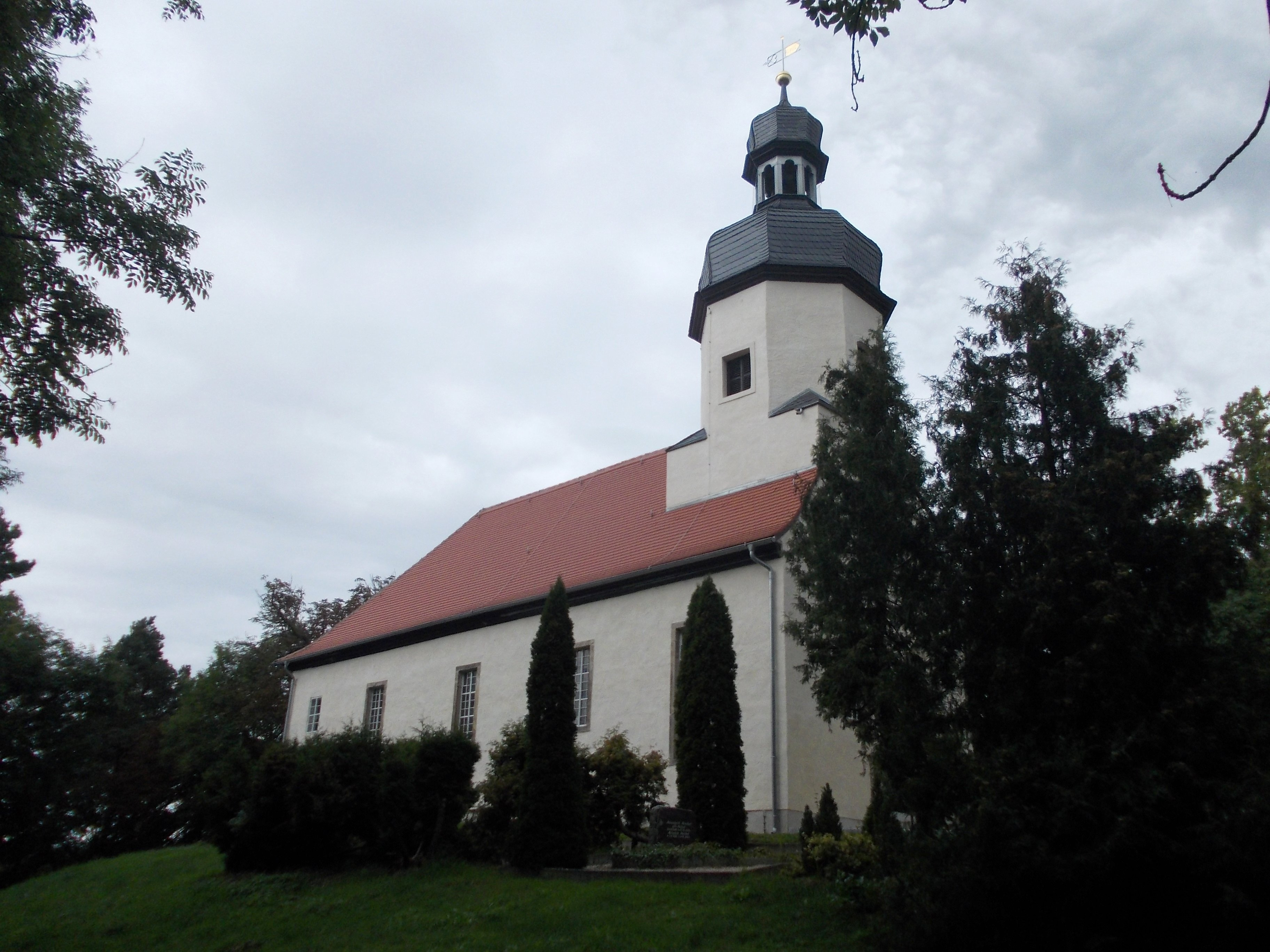 St. Nicasius' Church in Casekirchen (Molauer Land, district: Burgenlandkreis, Saxony-Anhalt)